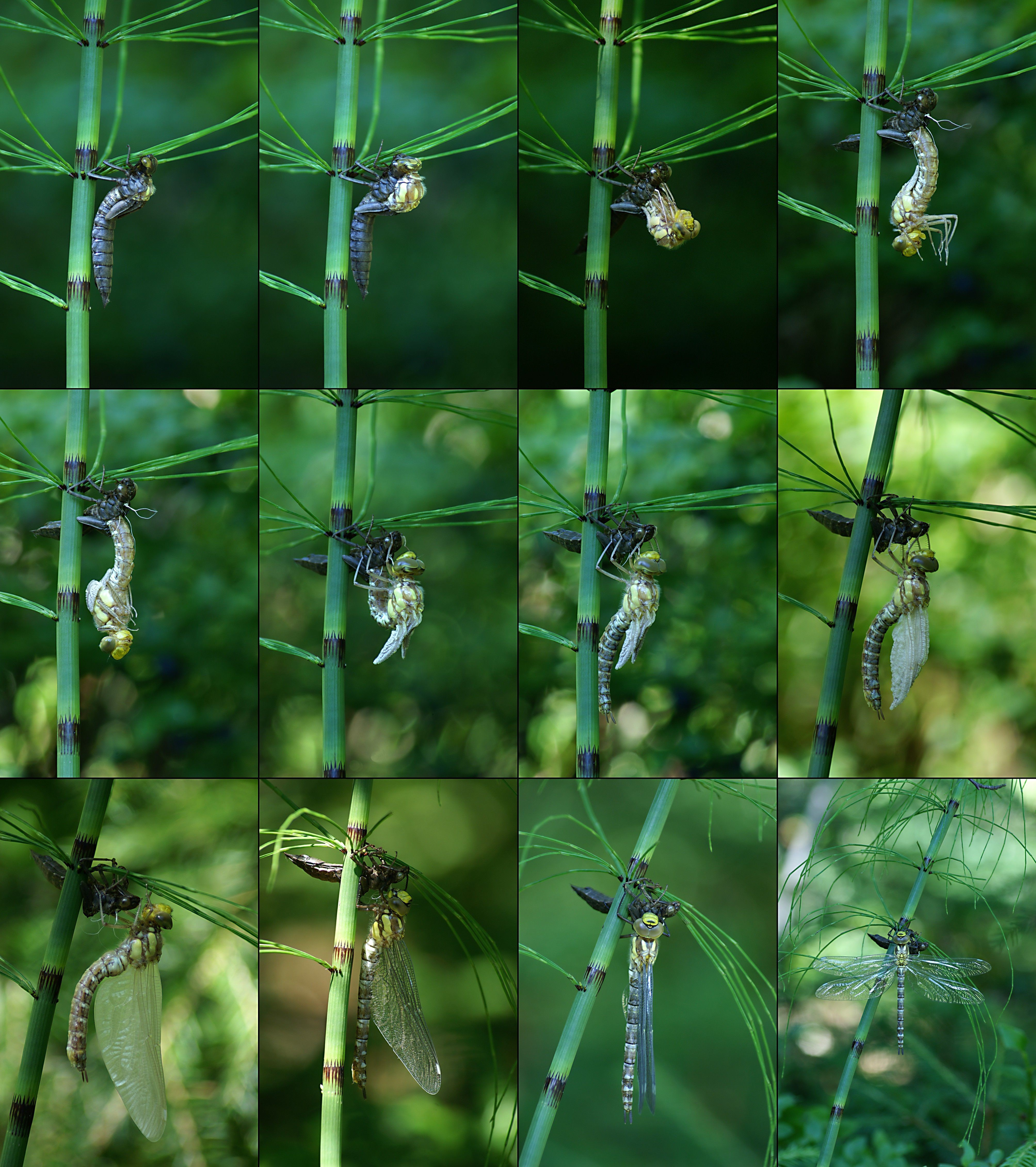 Female Southern Hawker emerging from larva skin on an Equisetum stem.